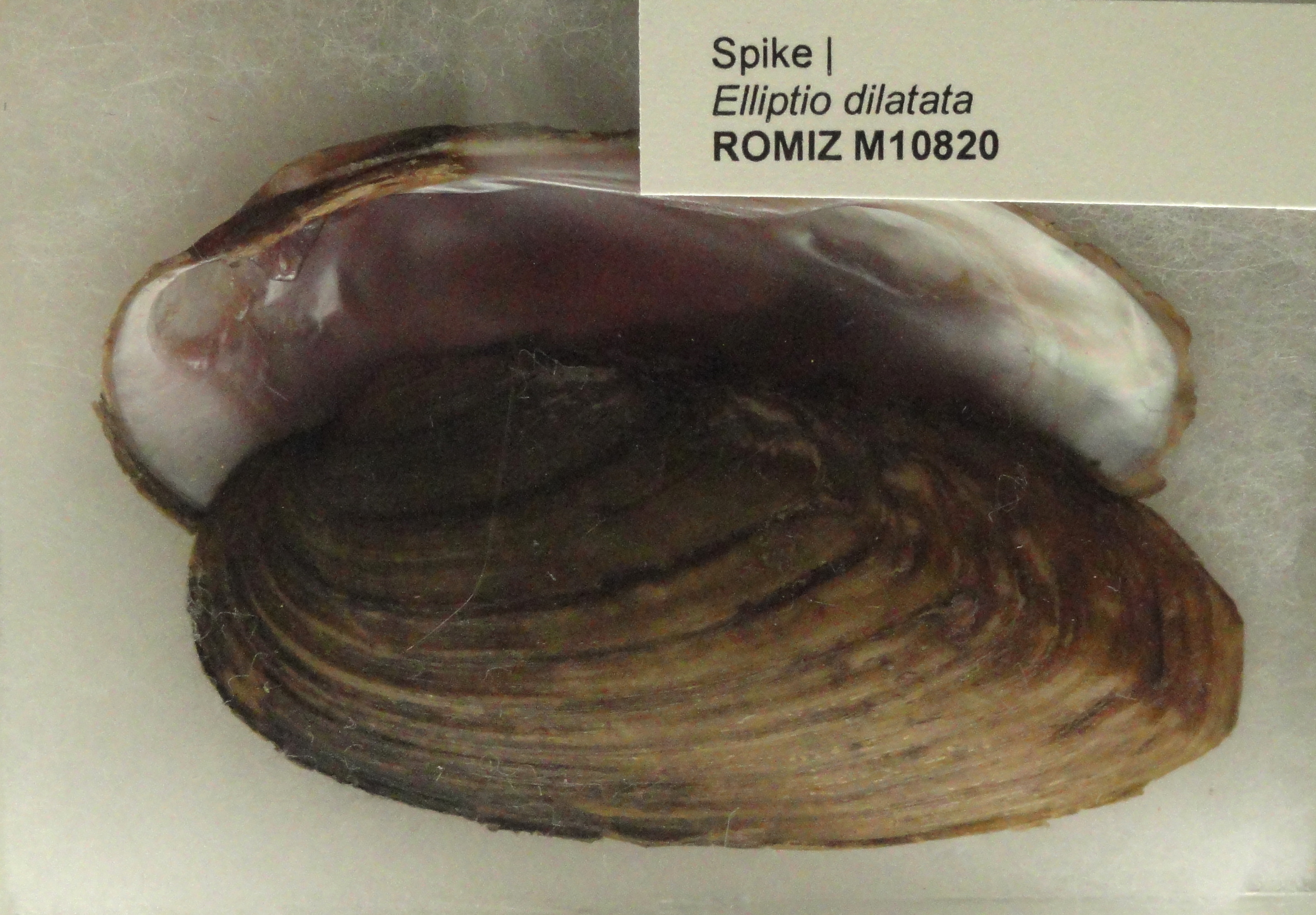 Exhibit in the Royal Ontario Museum, Toronto, Ontario, Canada. Photography was permitted in the museum. I took this photograph and release it into the public domain.